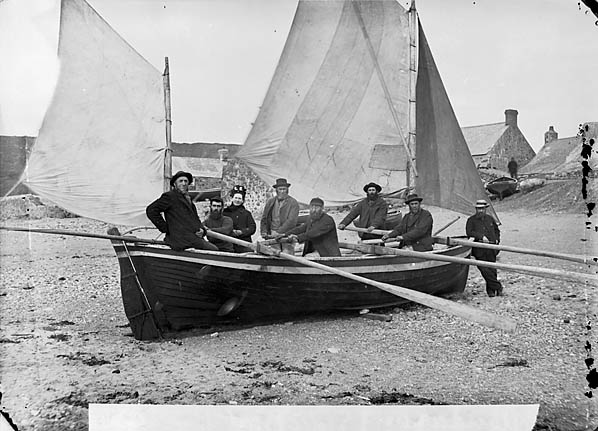 1 negative : glass, dry plate, b&w ; 12 x 16.5 cm.